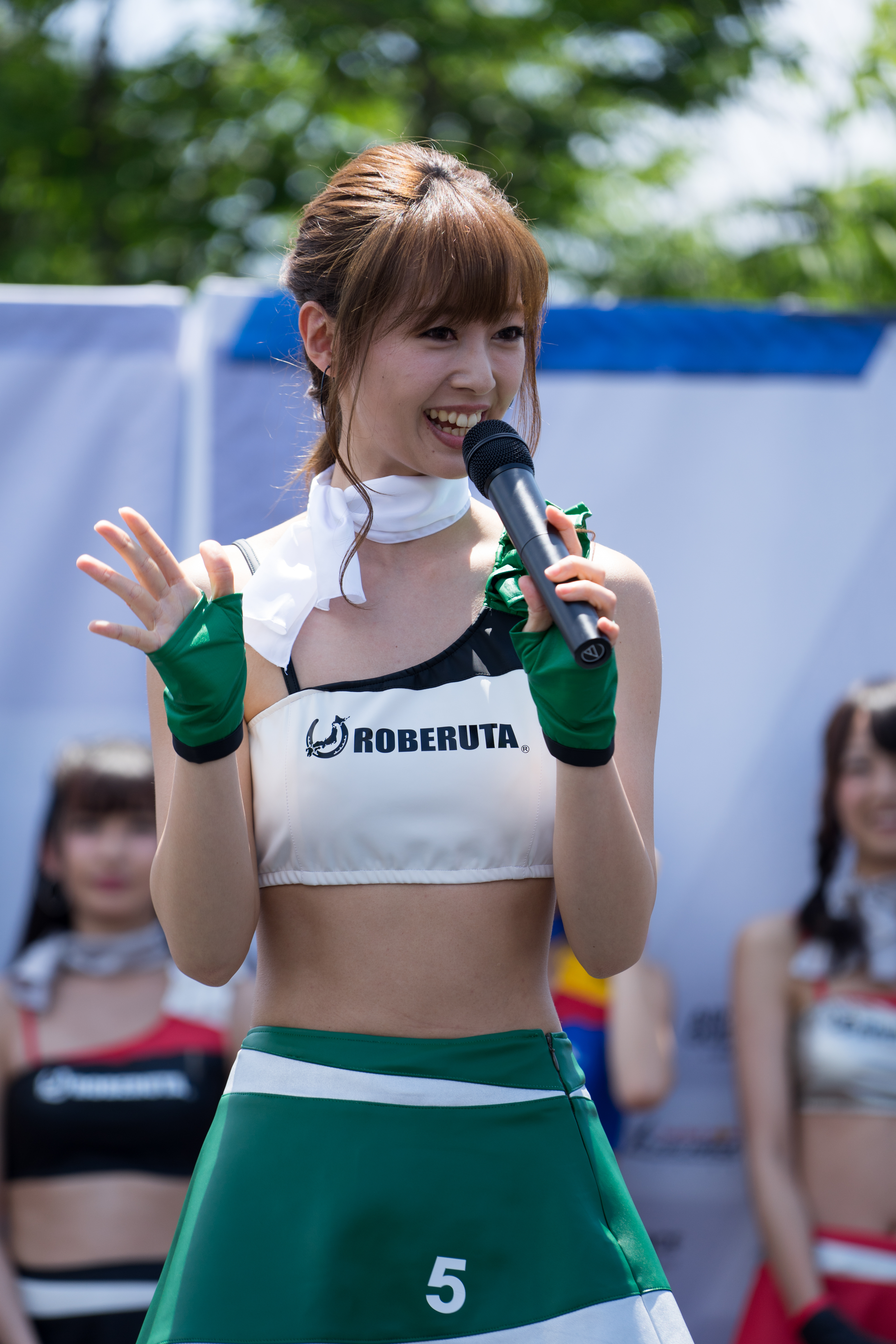 RED BULL AIR RACE CHIBA 2017-265.jpg